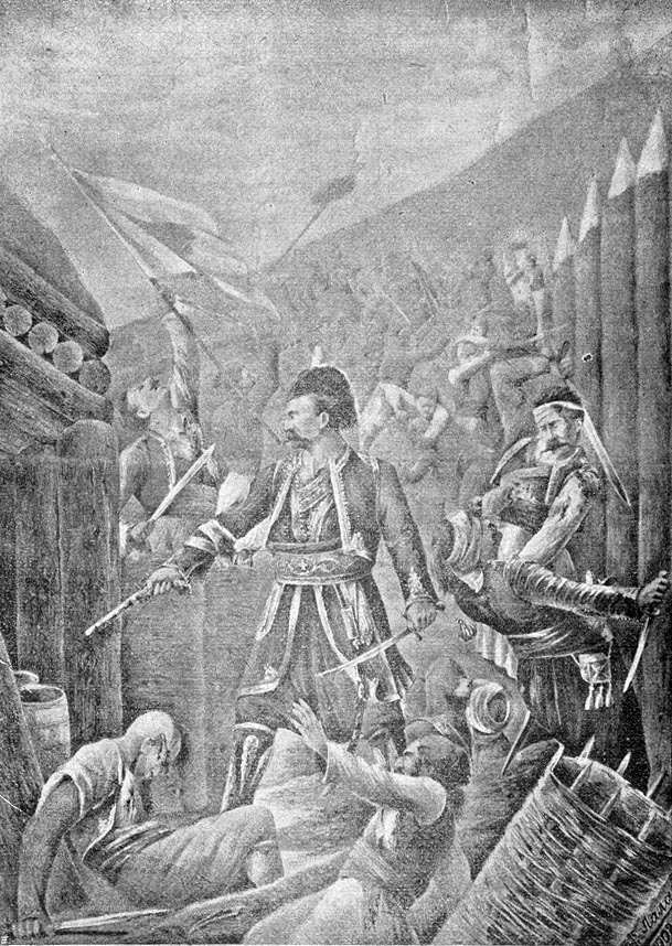 Junačka smrt vojvode Stevana Sinđelića